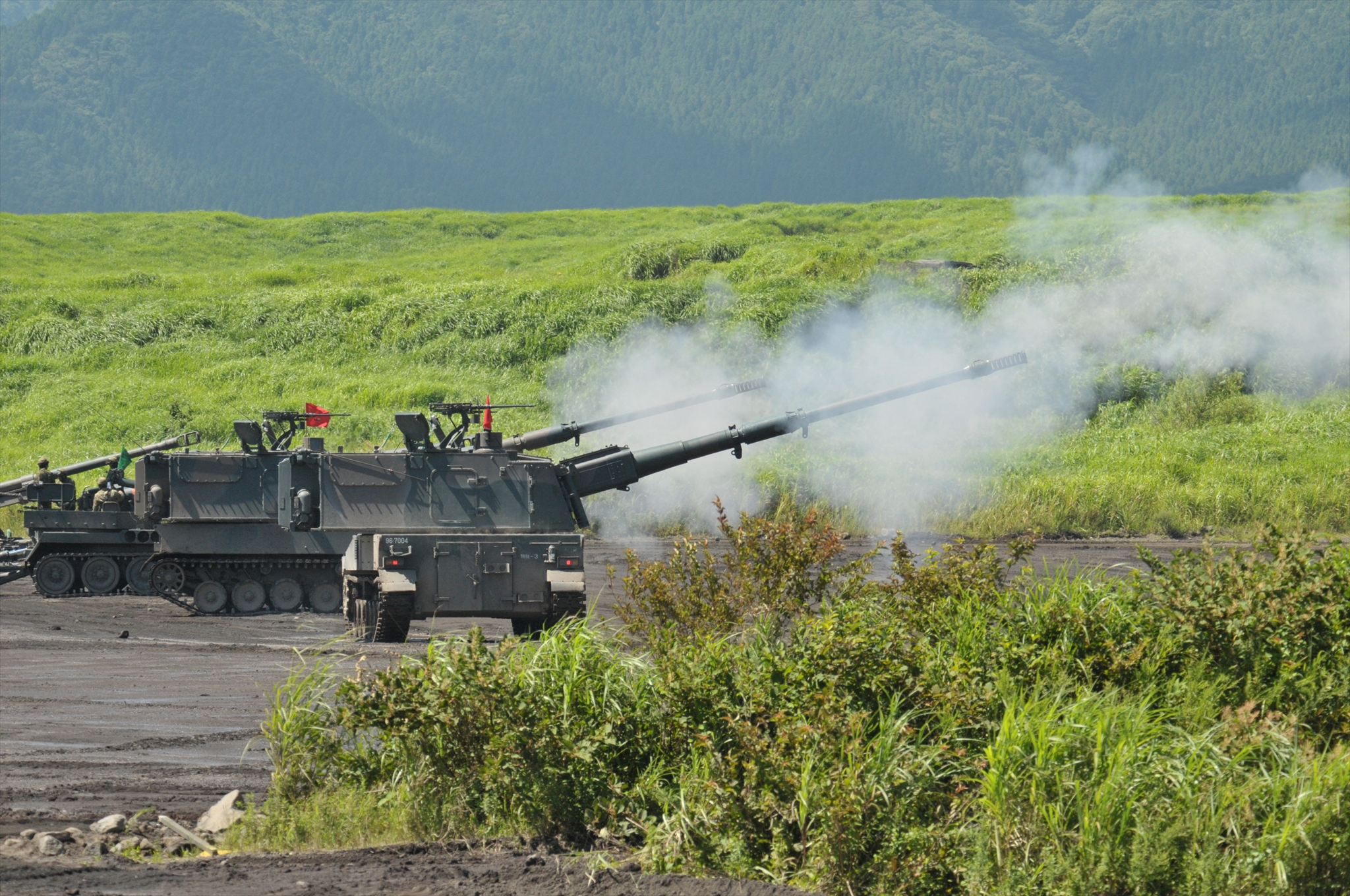 Title 21_03_017_R.JPG Album 富士総合火力演習・そうかえん 前段演習・特科火力（９９式自走１５５ｍｍりゅう弾砲）